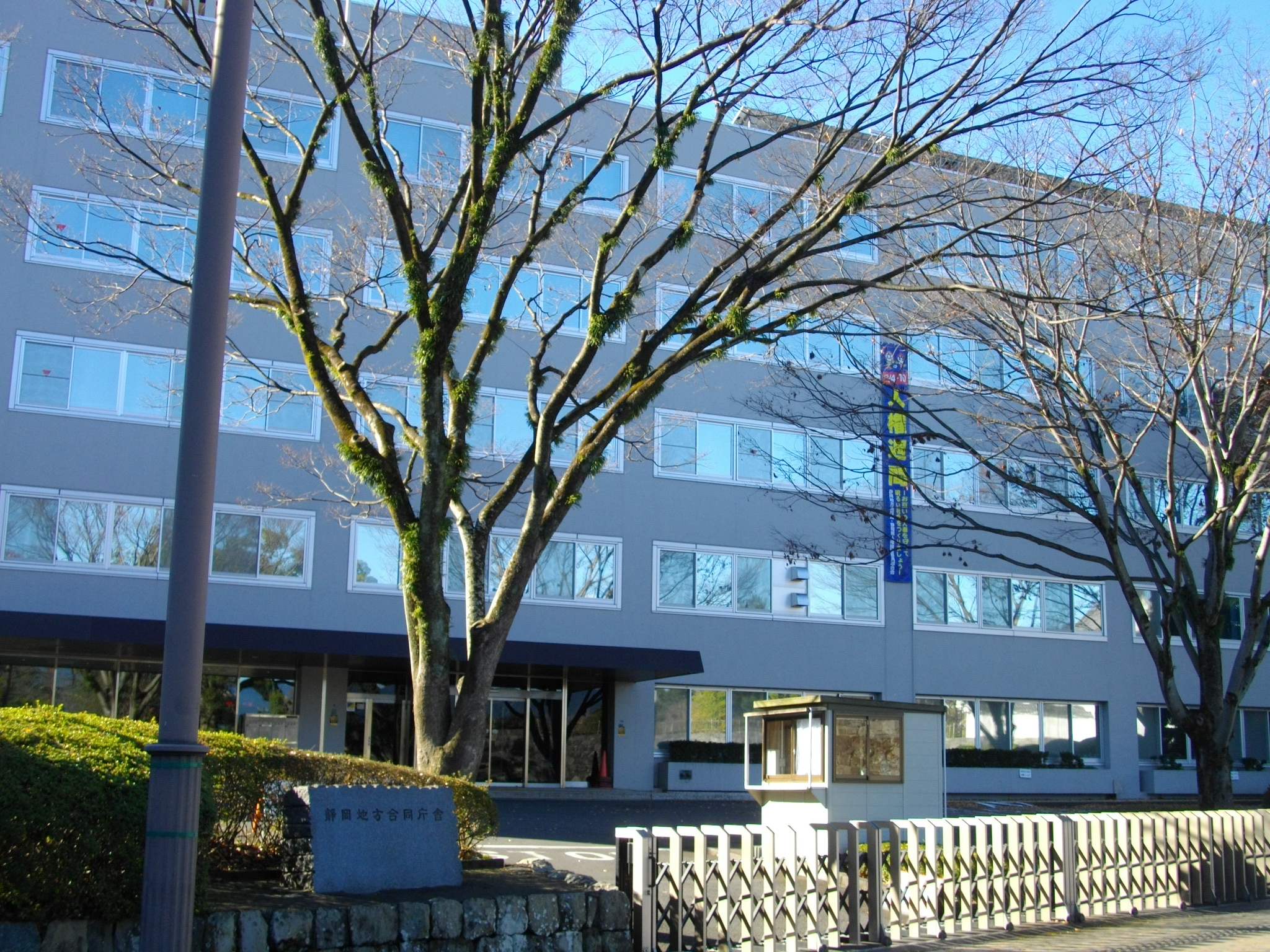 Shizuoka Common Government Building